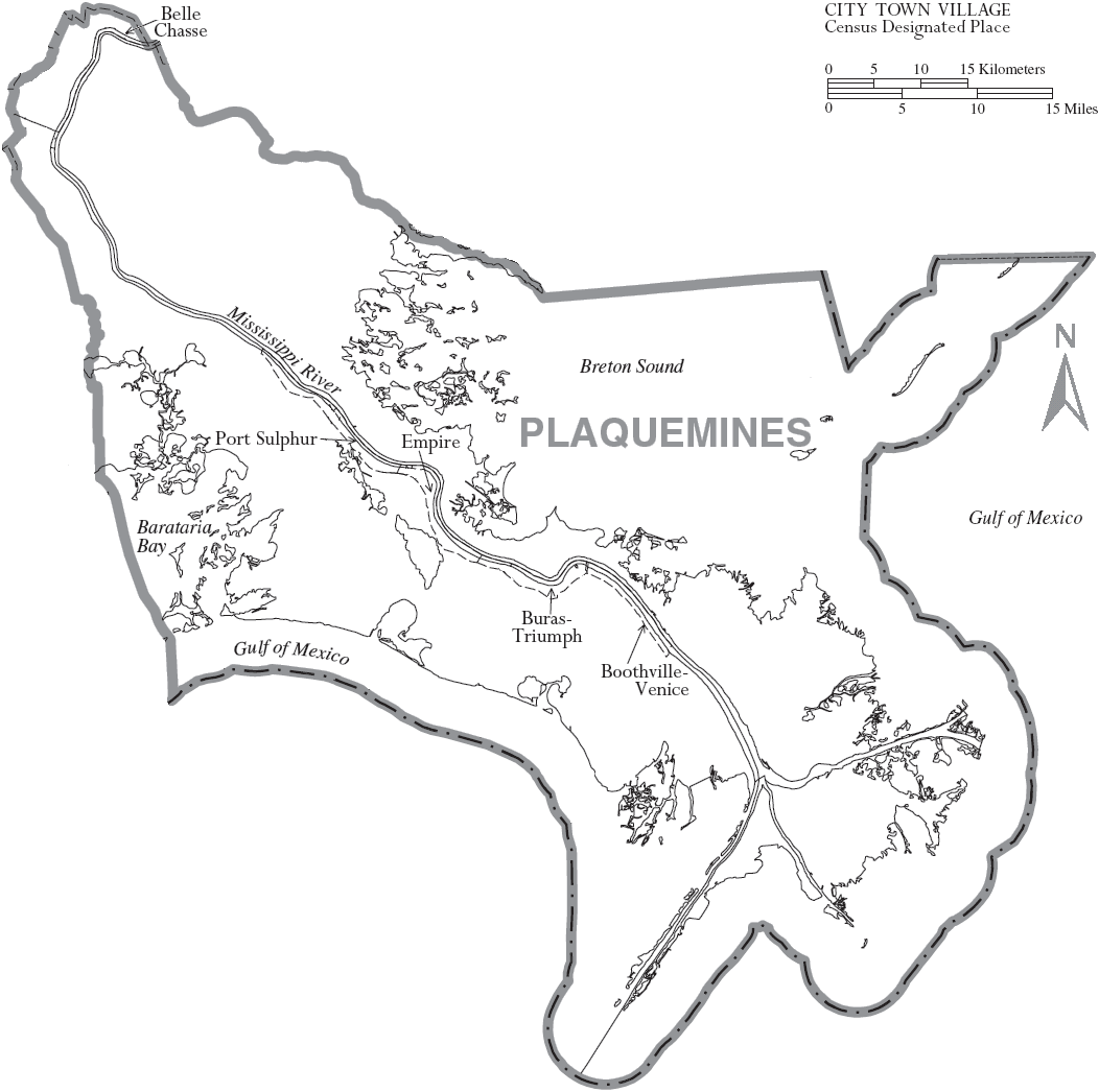 Map of Plaquemines Parish, Louisiana, United States with municipal boundaries